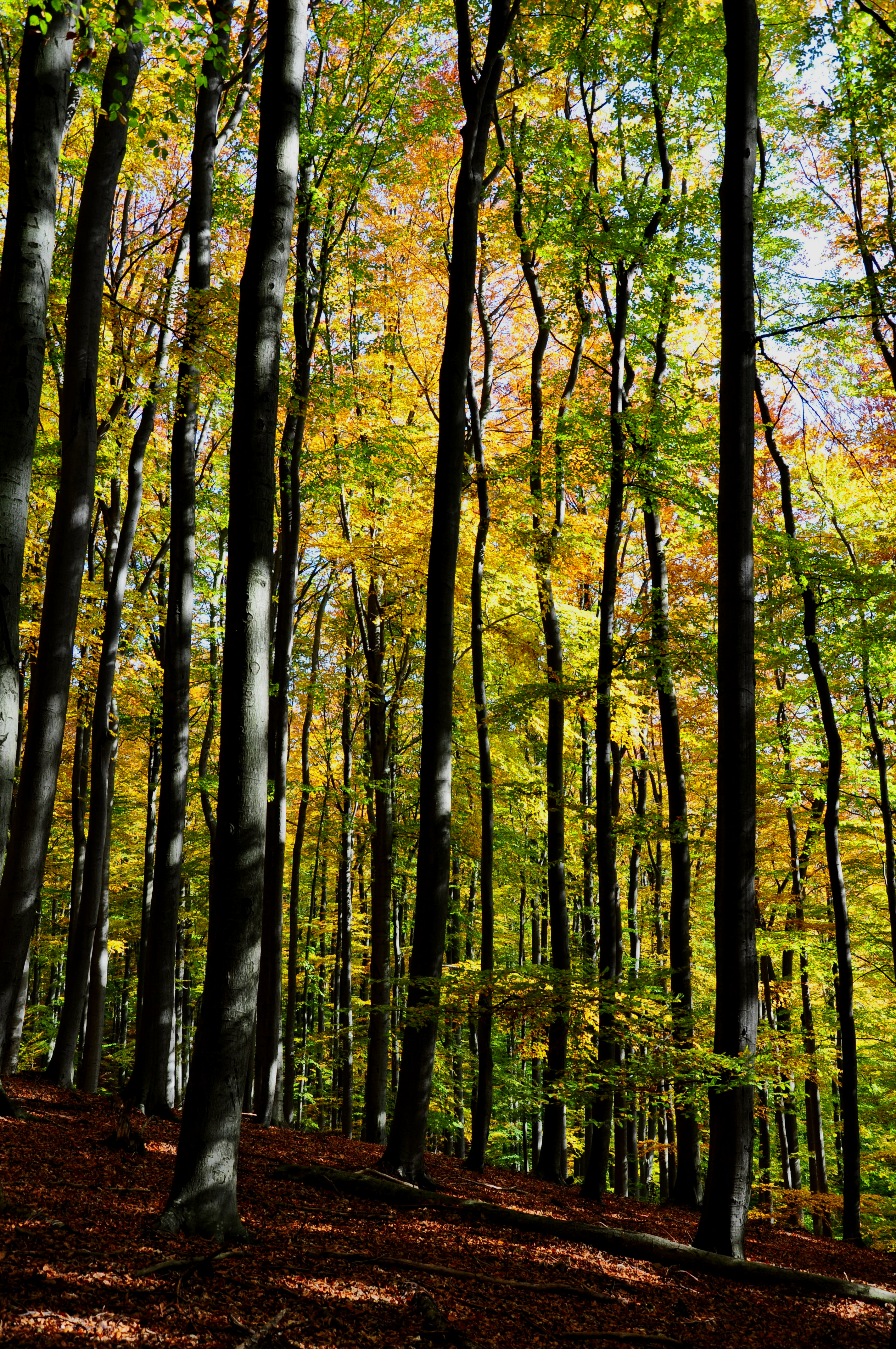 Middle part of national nature reserve Habrůvecká bučina in Blansko District, Czech Republic